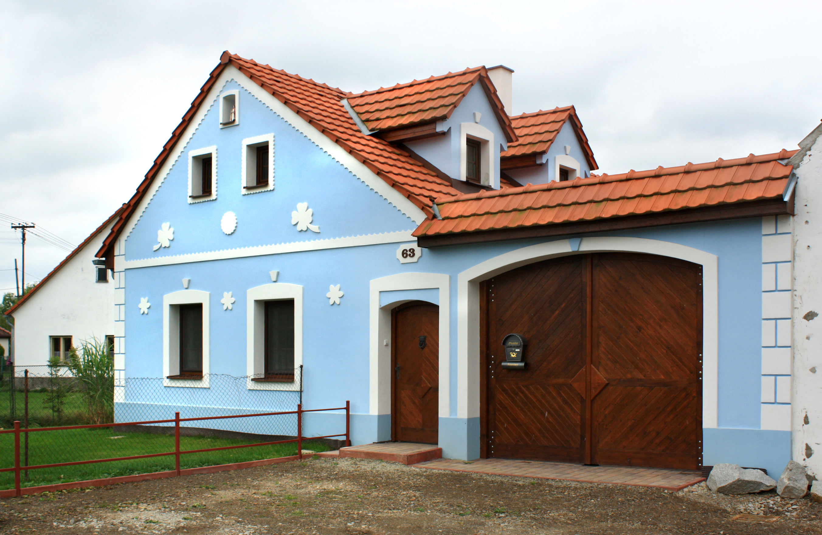 Old farm in Příbraz, Czech Republic